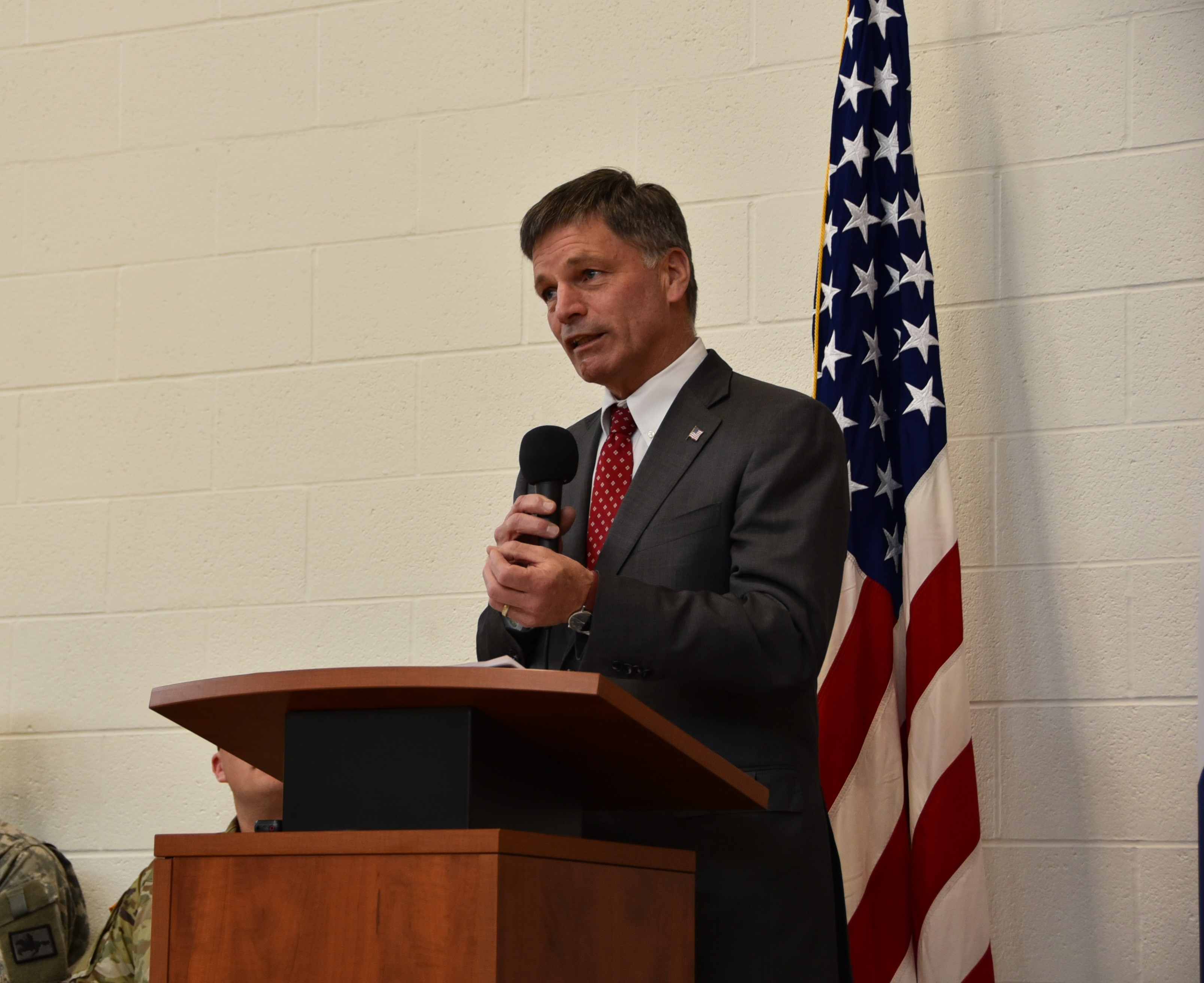 Wyoming Governor Mark Gordon